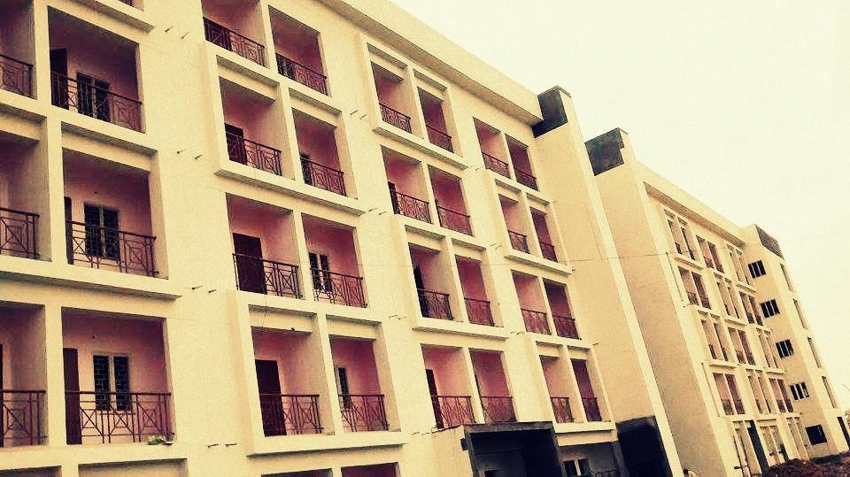 Hostels at NUSRL